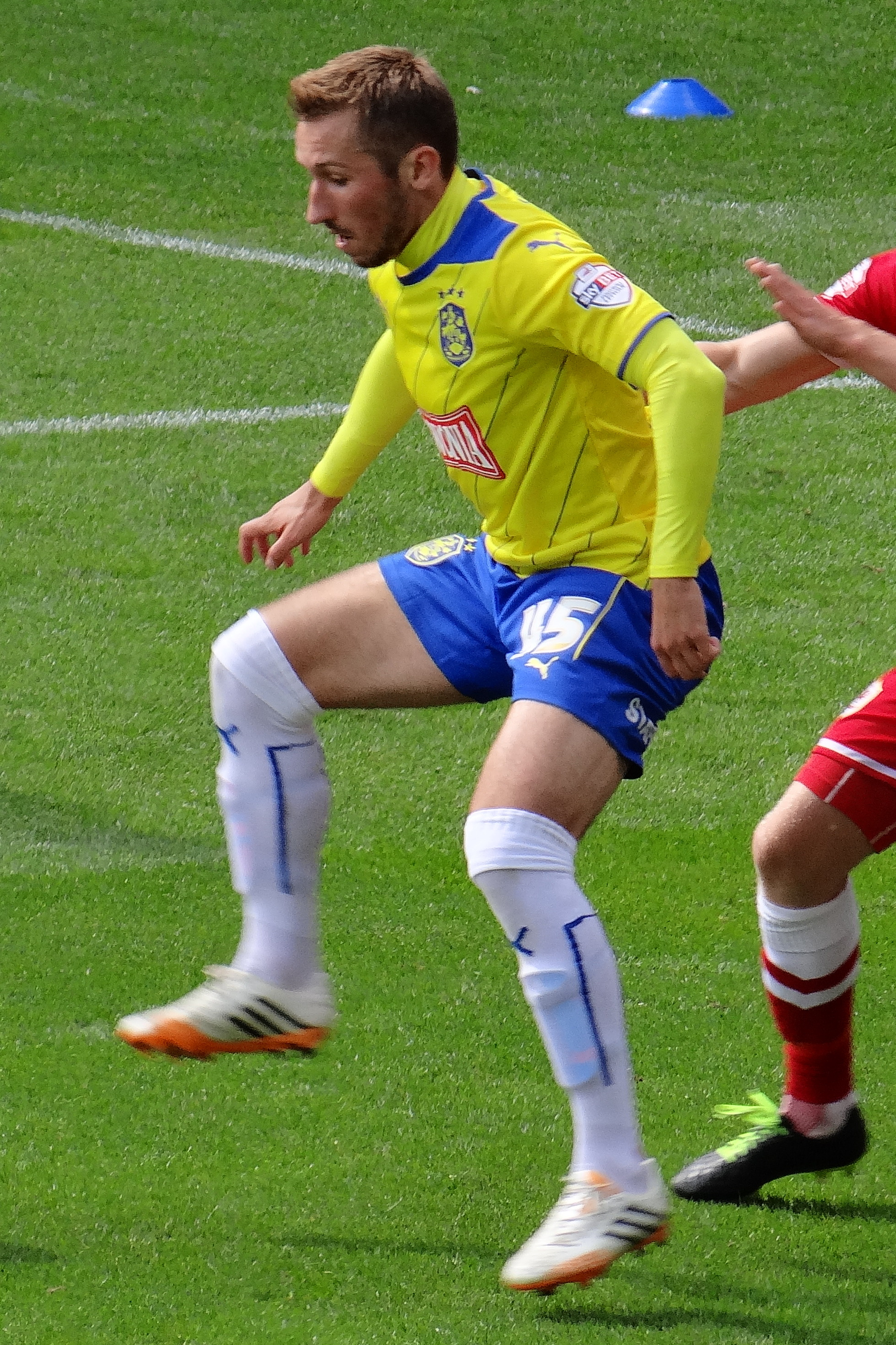 Polish football player during the game Cardiff City vs. Huddersfield Town.